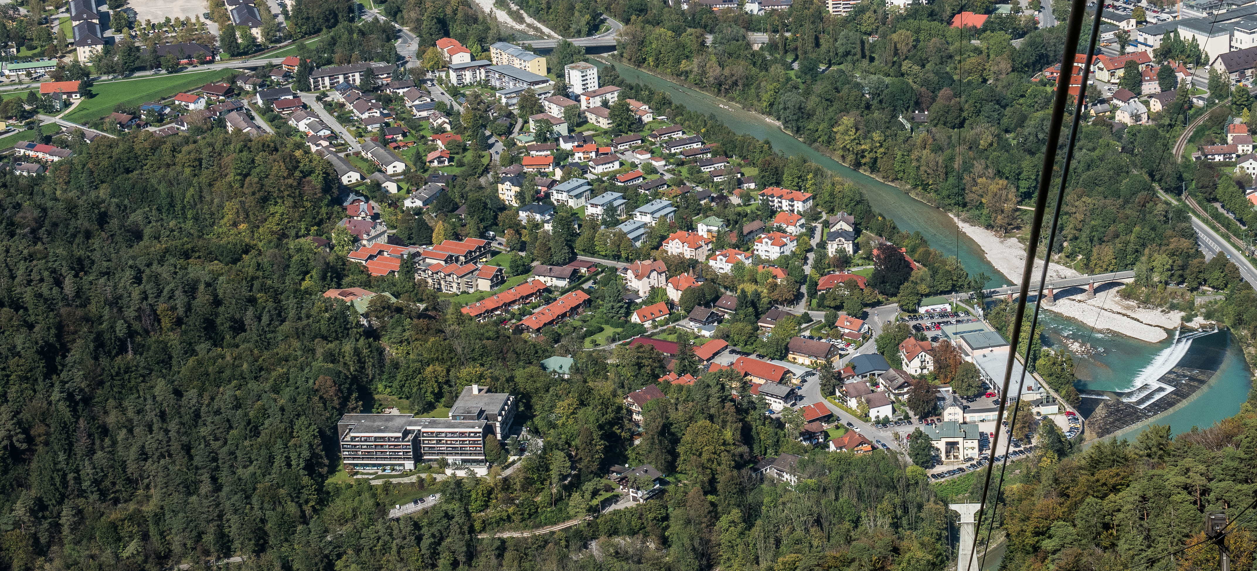 This is a photograph of an architectural monument.